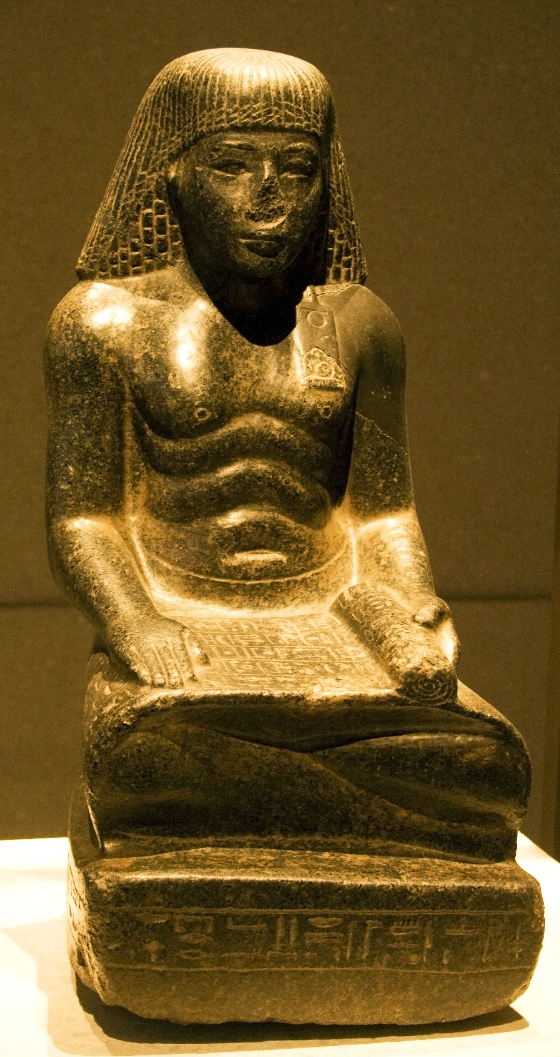 Scribe figure of Sobekhotep, chief of treasury